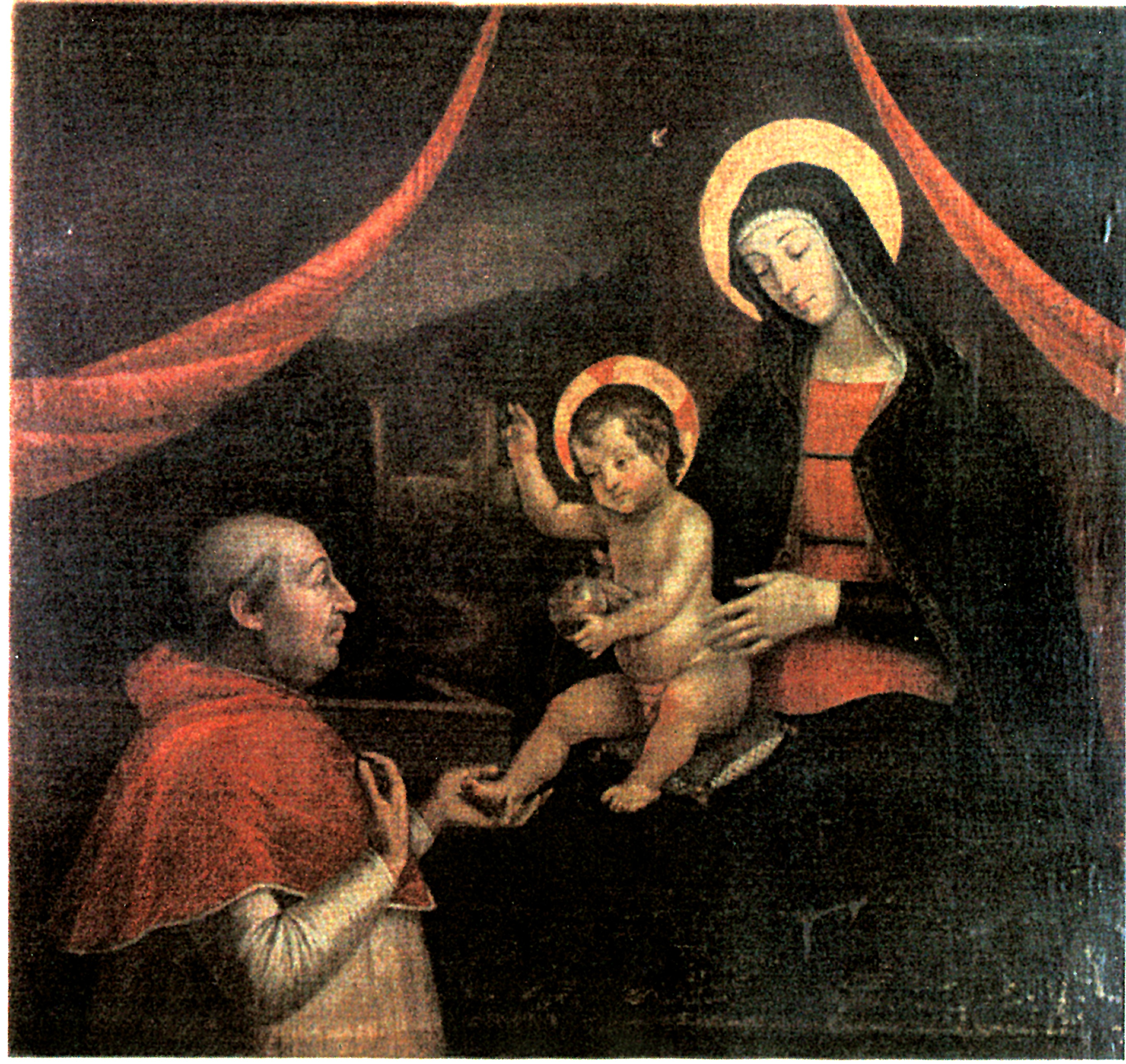 Copy of destroyed fresco of Pinturicchio "pope Alexander VI before Madonna (his favorite Giulia Farnese)" decribed by Vasari. Made by Pietro Facettio